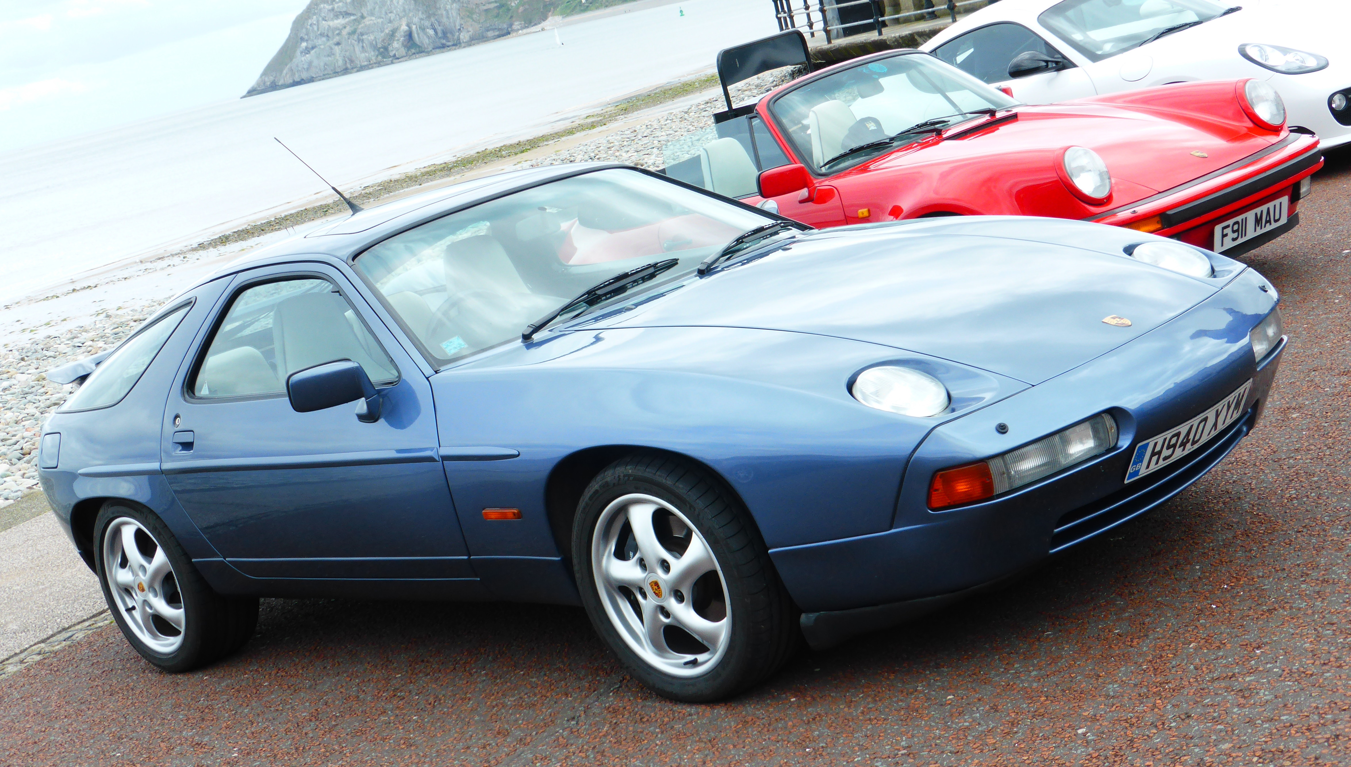 Porsches on the Prom at Llandudno